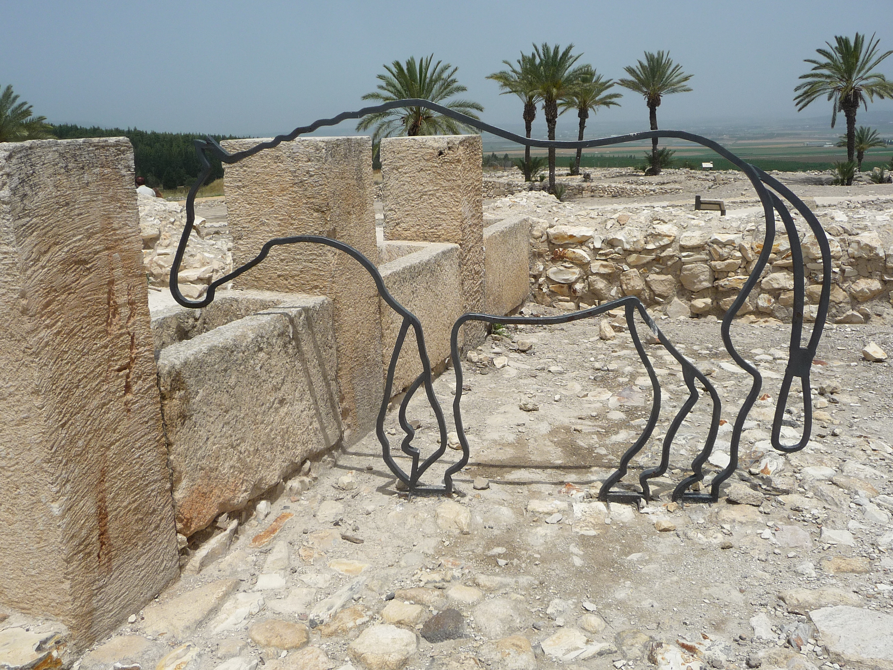 Tel Megiddo (Hebrew: מגידו; Arabic: مجیدو, Tell al-Mutesellim, "The Tell of the Governor") is an ancient city whose remains form a tell (archaeological mound), situated in northern Israel. Some Christians believe that Armageddon will be the site of the final battle between Jesus Christ and the kings of the Earth who go to war against Israel, as outlined in the Book of Revelation.